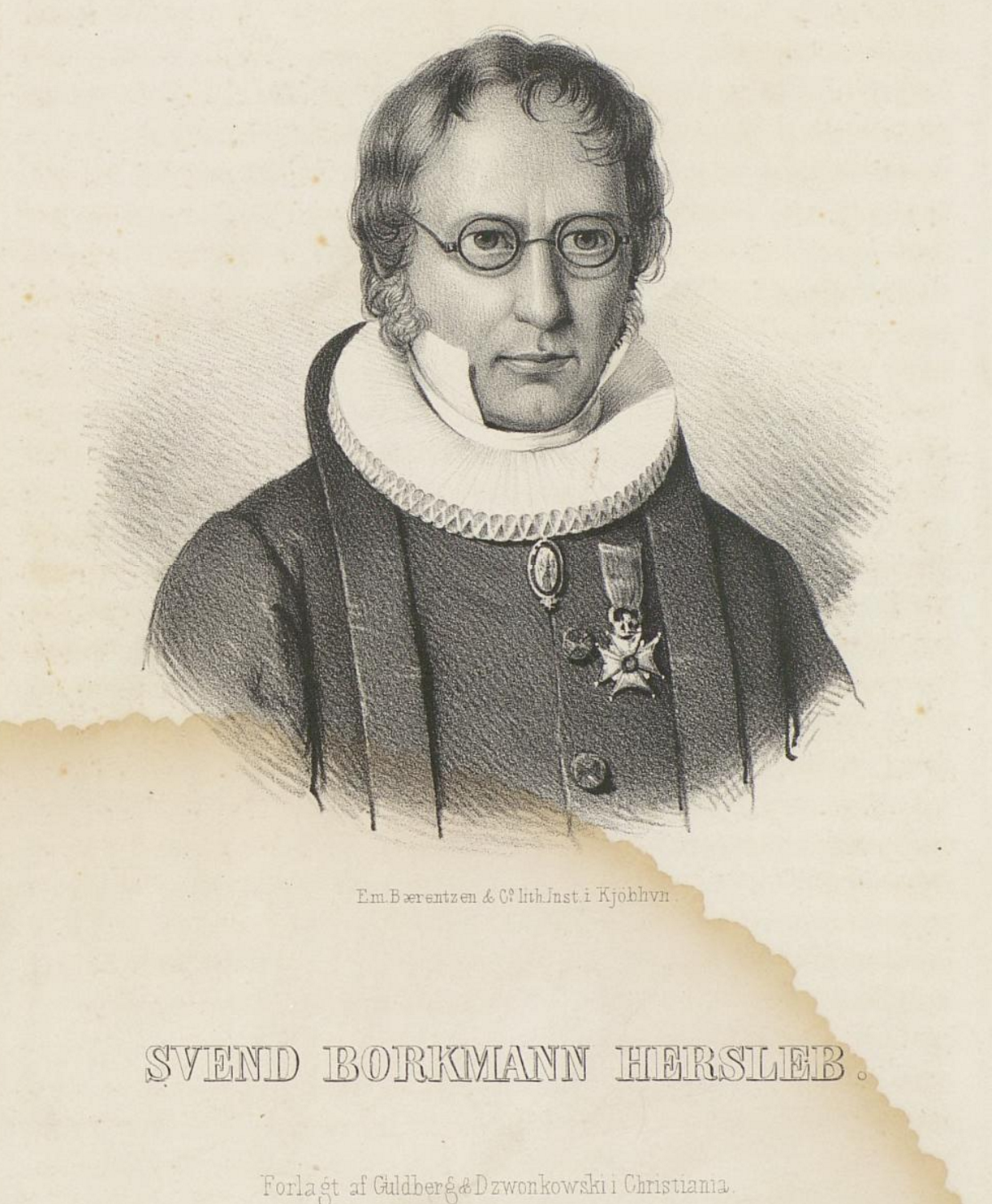 Lithograph of Svend Borchmann Hersleb (1784-1836), by "Em. Bærentzen & Co. Lith. Inst. i Kiøbenhavn"